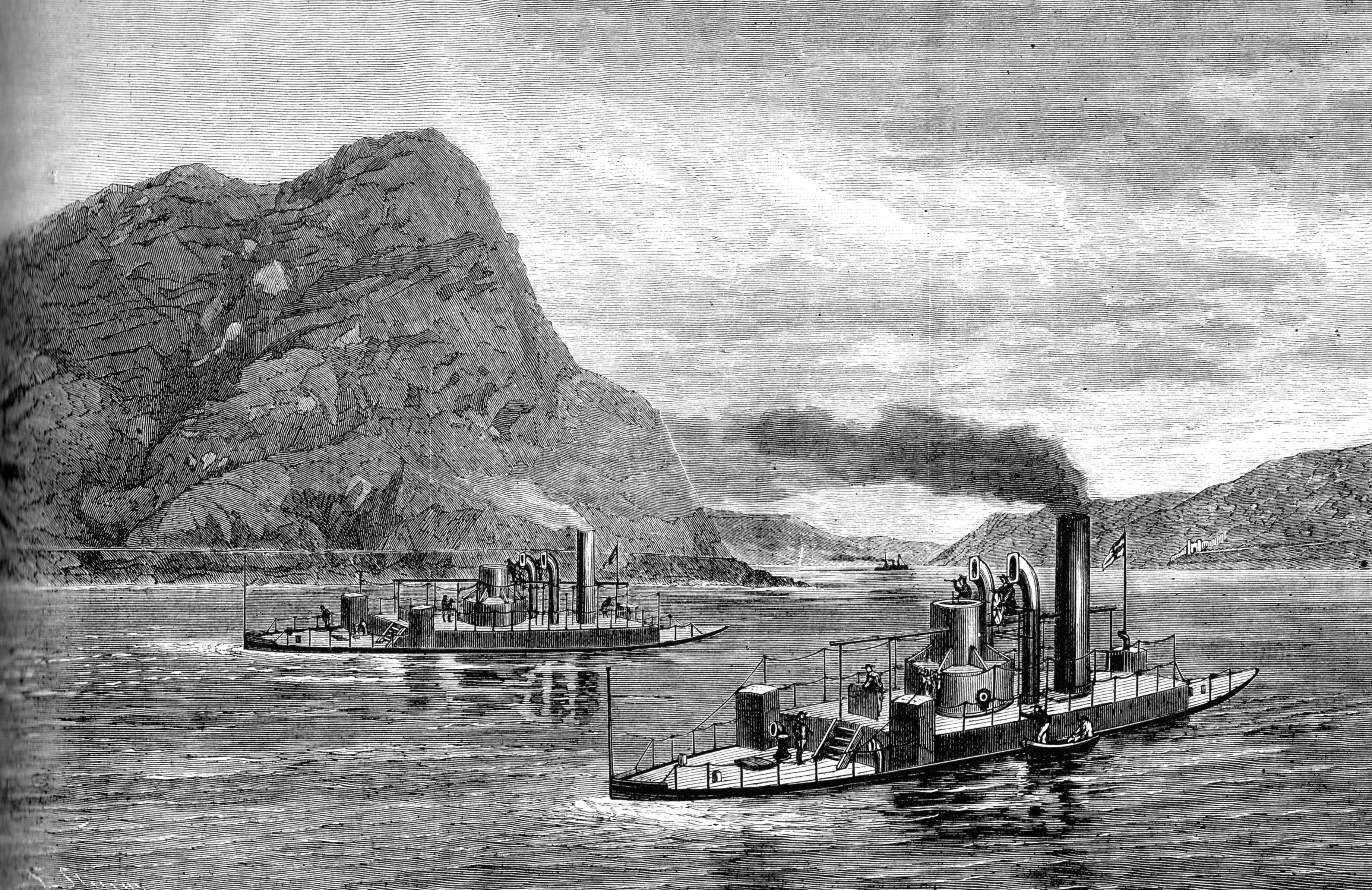 The river gunboats SMS RHEIN and SMS MOSEL on the Rhine 1875, left SMS RHEIN